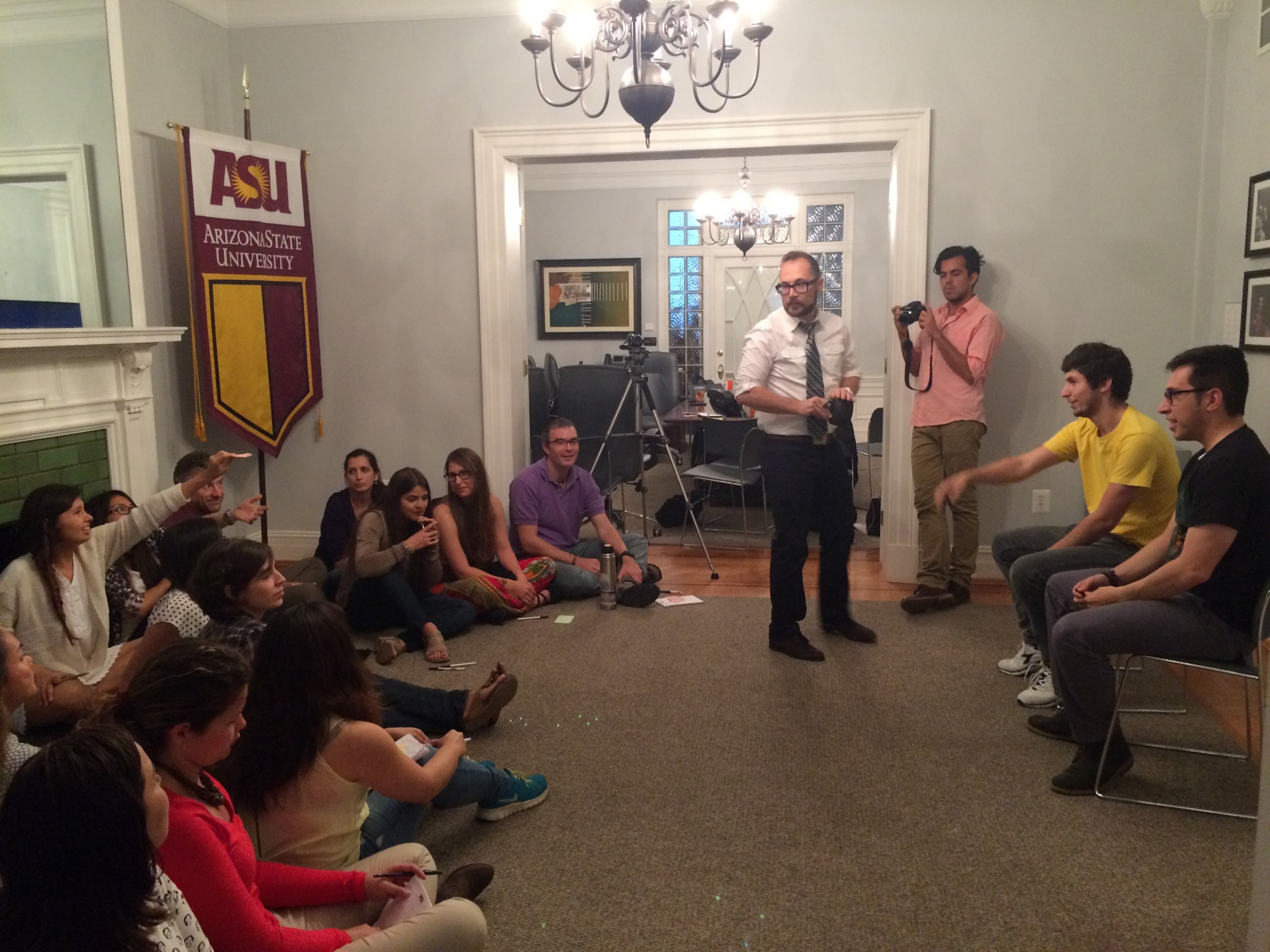 Using improve theater as a method for enhancing public communication skills